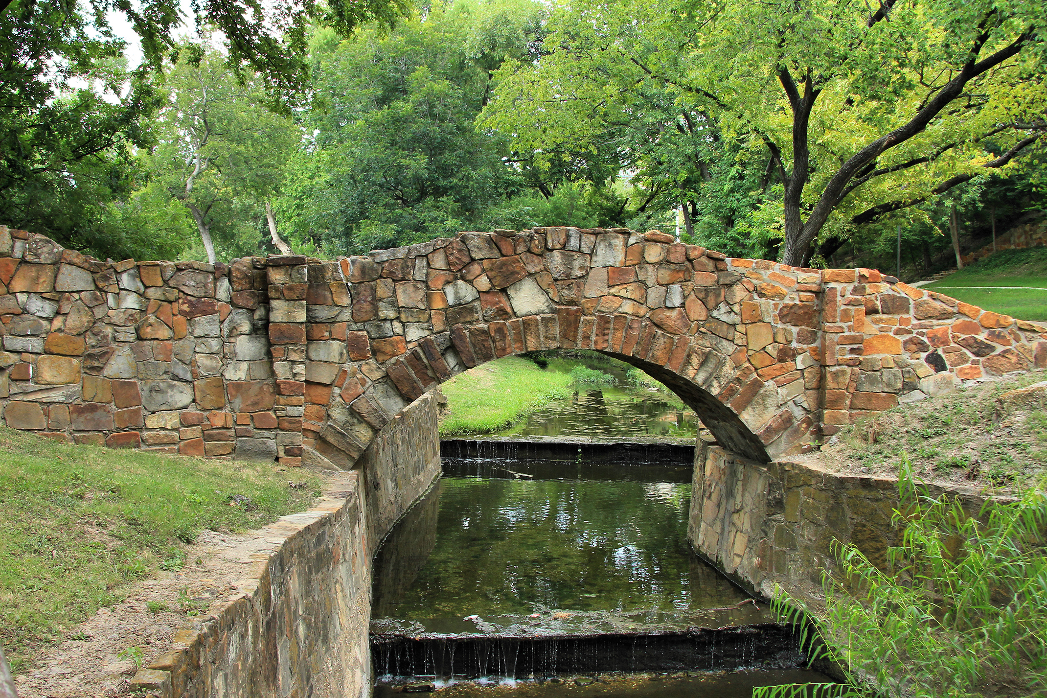 Reverchon Park Bridge. The stone footbridge crosses Turtle Creek.